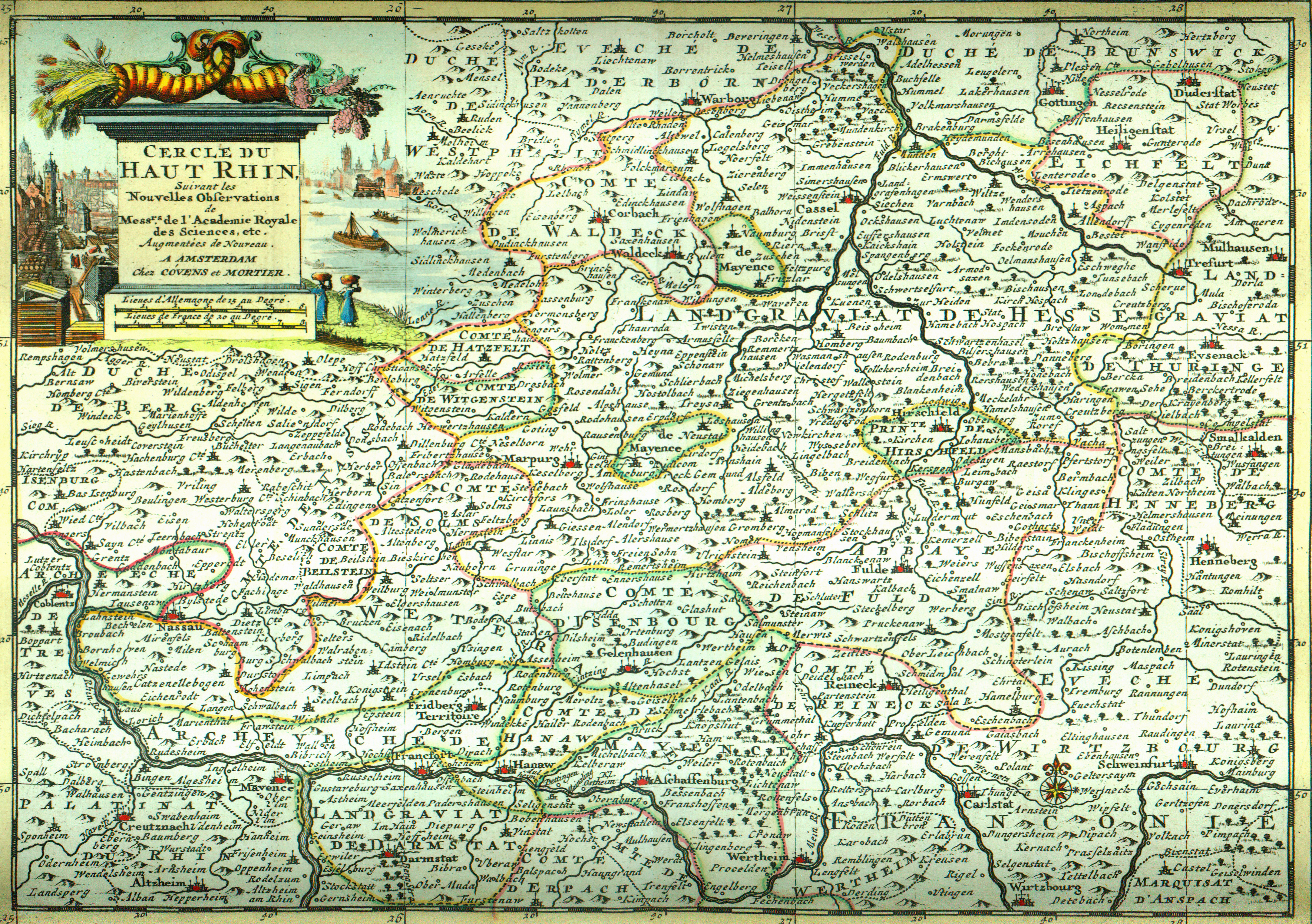 Karte der Landgrafschaft Hessen-Kassel um 1720. (Map of the german county Hessen-Kassel in central Germany, publication date circa 1720)